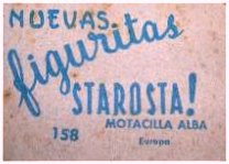 Figuritas Starosta, Argentina, 1940s.